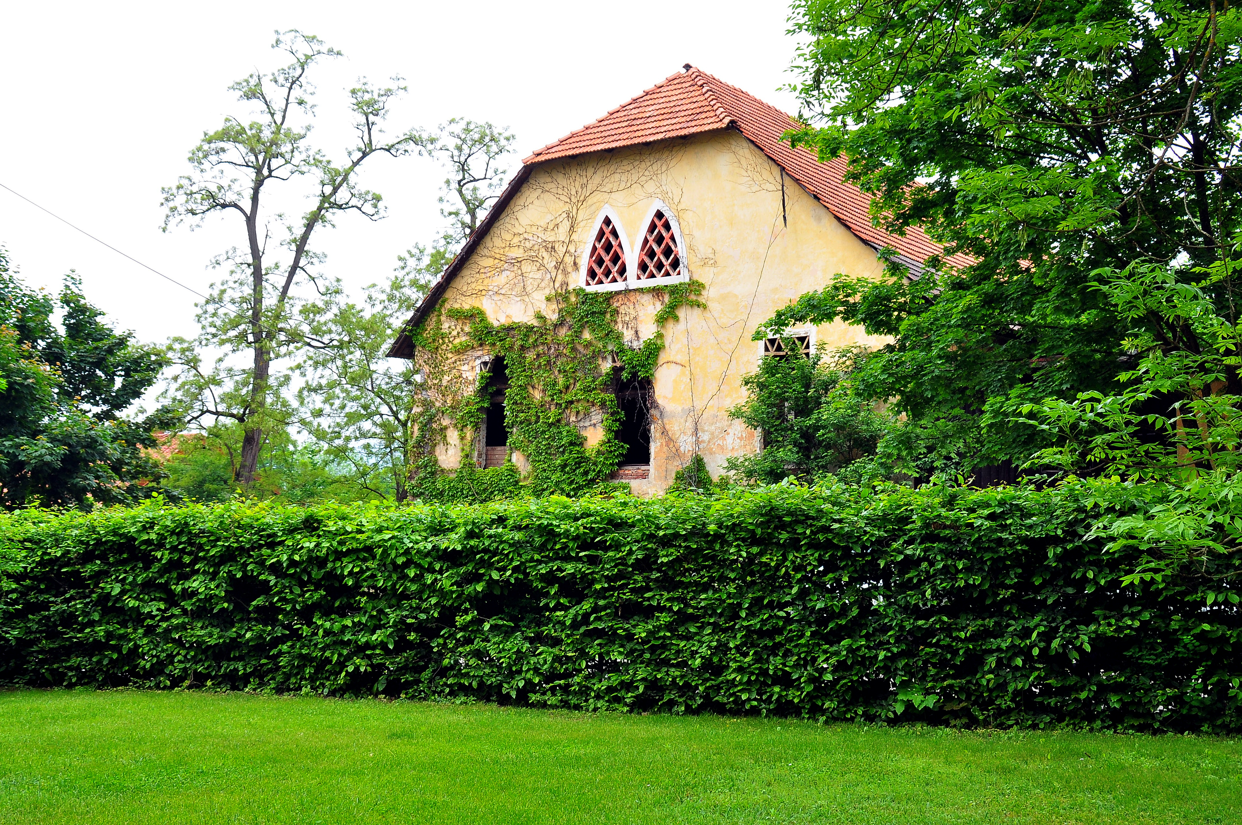 Farmhouse at “Farchern”, situated in the 15th district “Hörtendorf” of the Carinthian capital Klagenfurt on the Lake Woerth, Carinthia, Austria